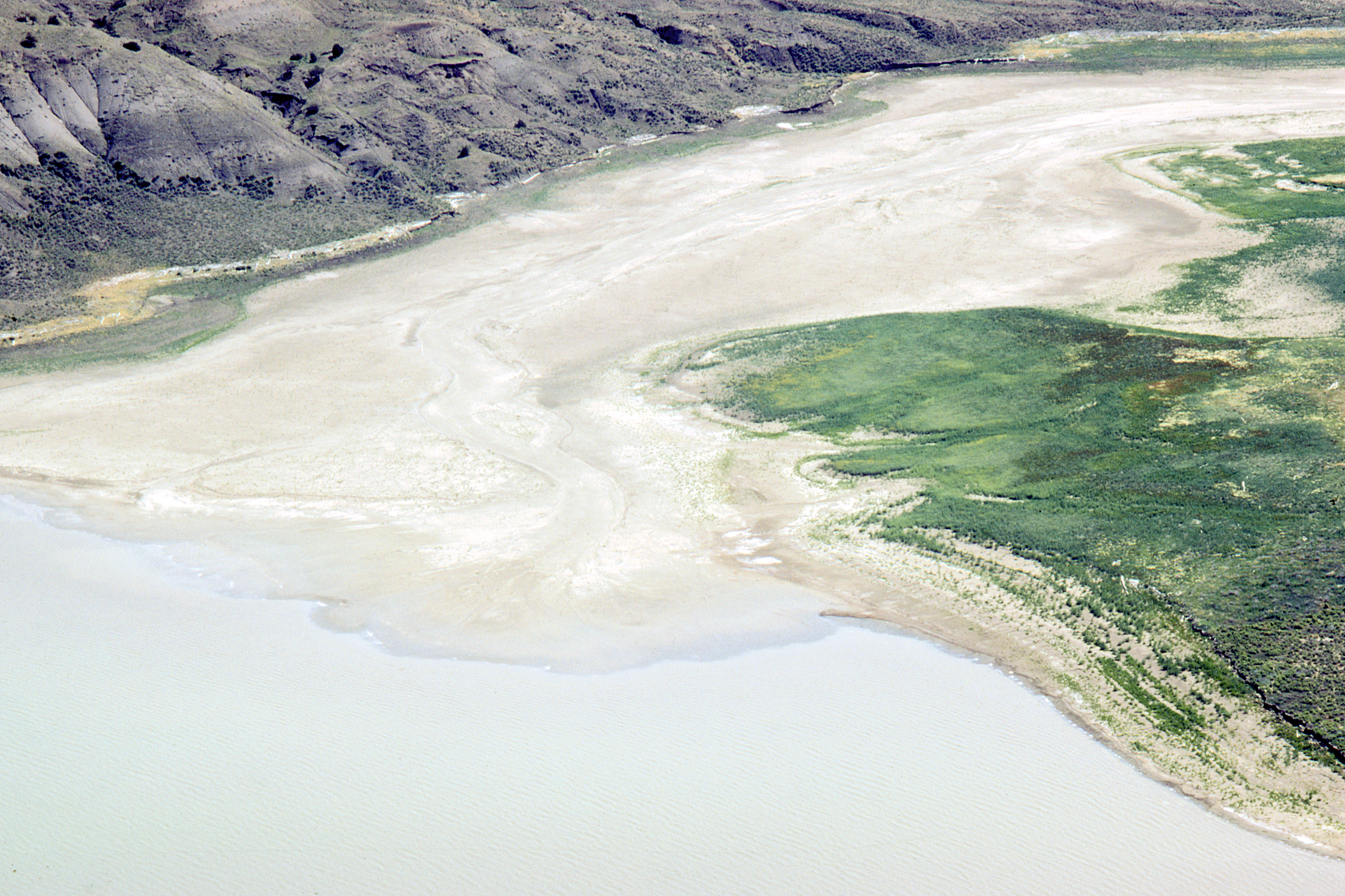 Sediment deposits in Garfield County.